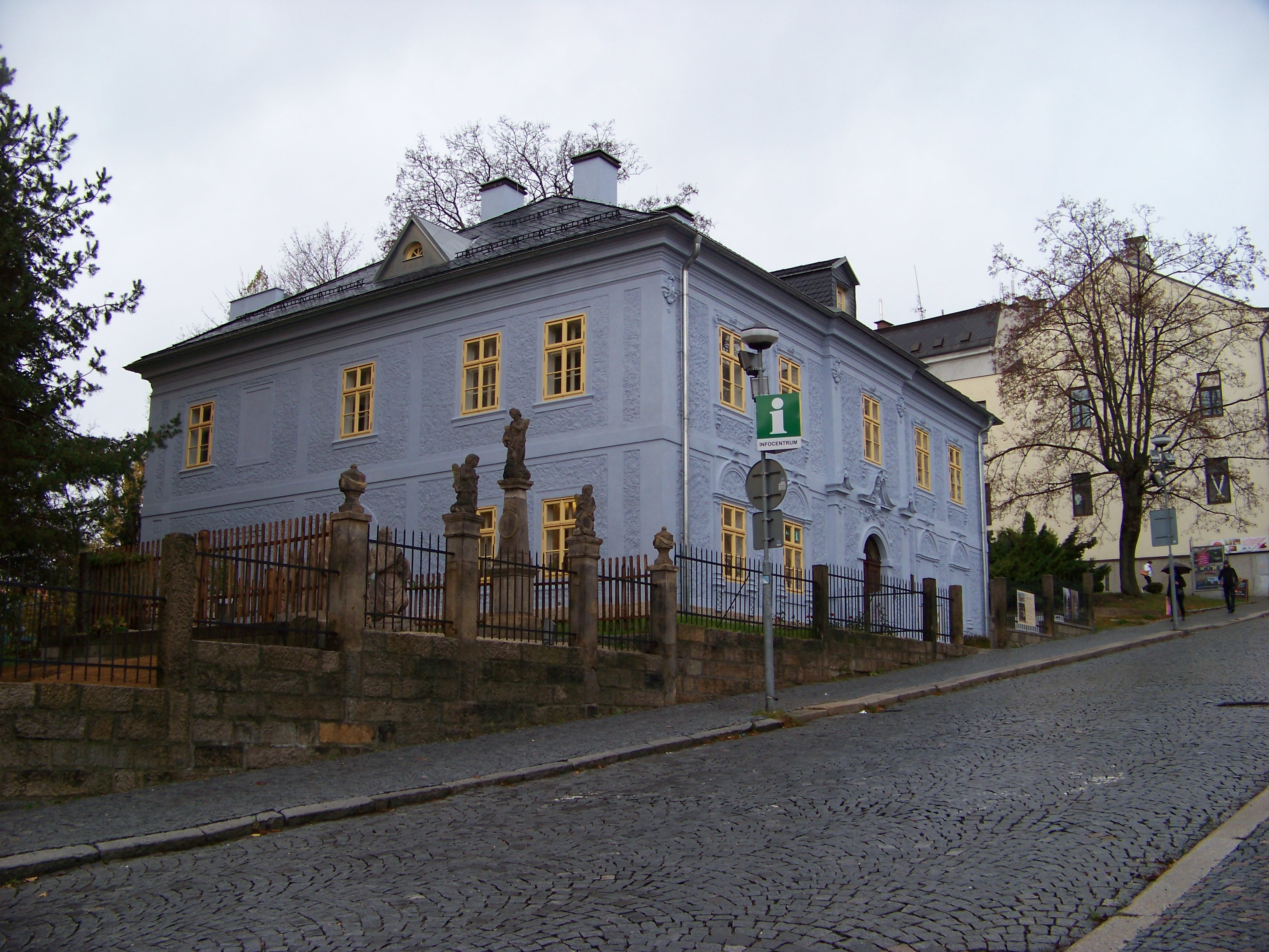 Jablonec nad Nisou, Jablonec nad Nisou District, Liberec Region, Czech Republic. Kostelní 1/6, the old rectory.